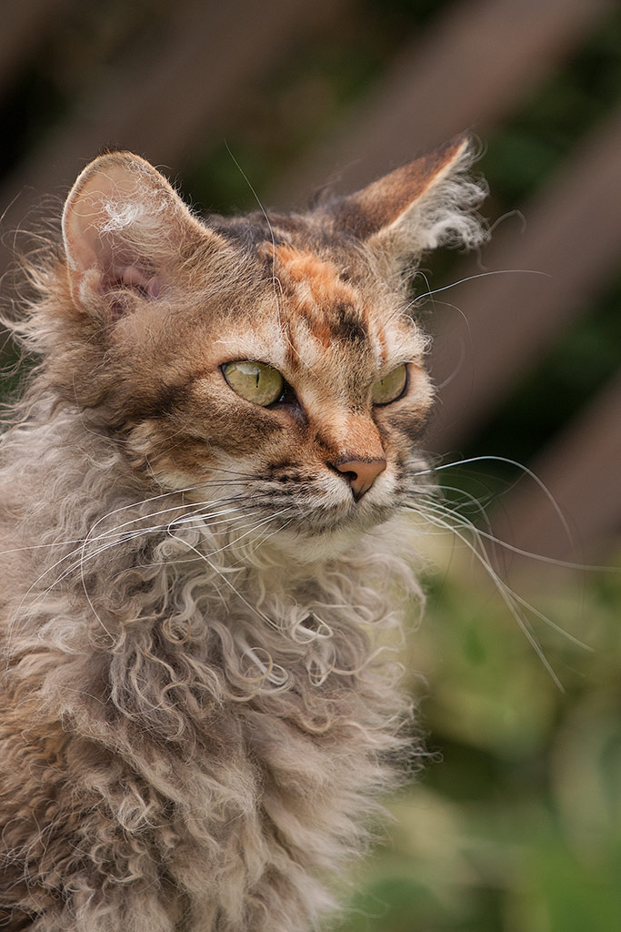 S*ÄgirsHus BC Nertus ,black torbie laperm cat LaPerm cat. FiFe's first international champion